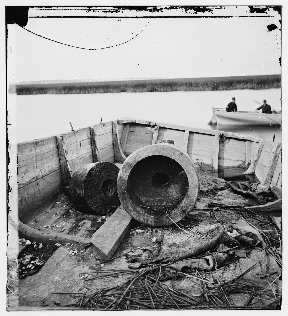 View showing what remained of the famous "Floating Battery" used by South Carolinians to drive Anderson and his men from Fort Sumter in 1861. (Caption from original negative sleeve.) Miller, Vol. 5, p. 155). Glass stereograph wet collodion negative. The Civil War Negative Collection, Library of Congress, Washington, D. C.